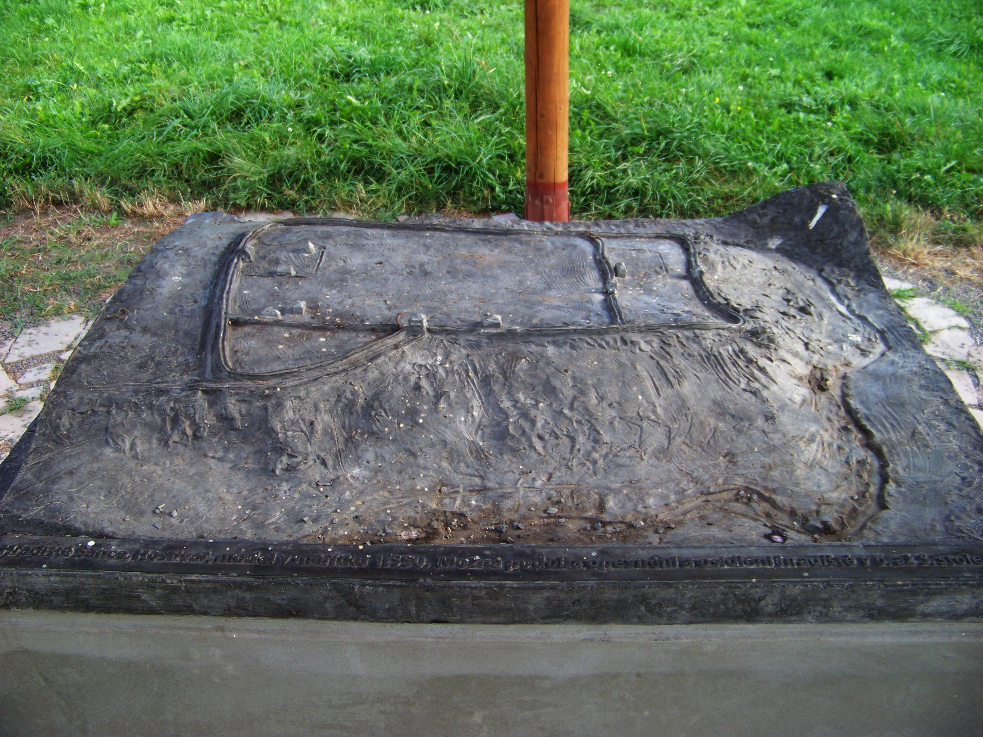 Prague-Hostivař, the Czech Republic. A model of the former fortified settlement. Object location50° 02′ 43.3″ N, 14° 32′ 03.9″ E